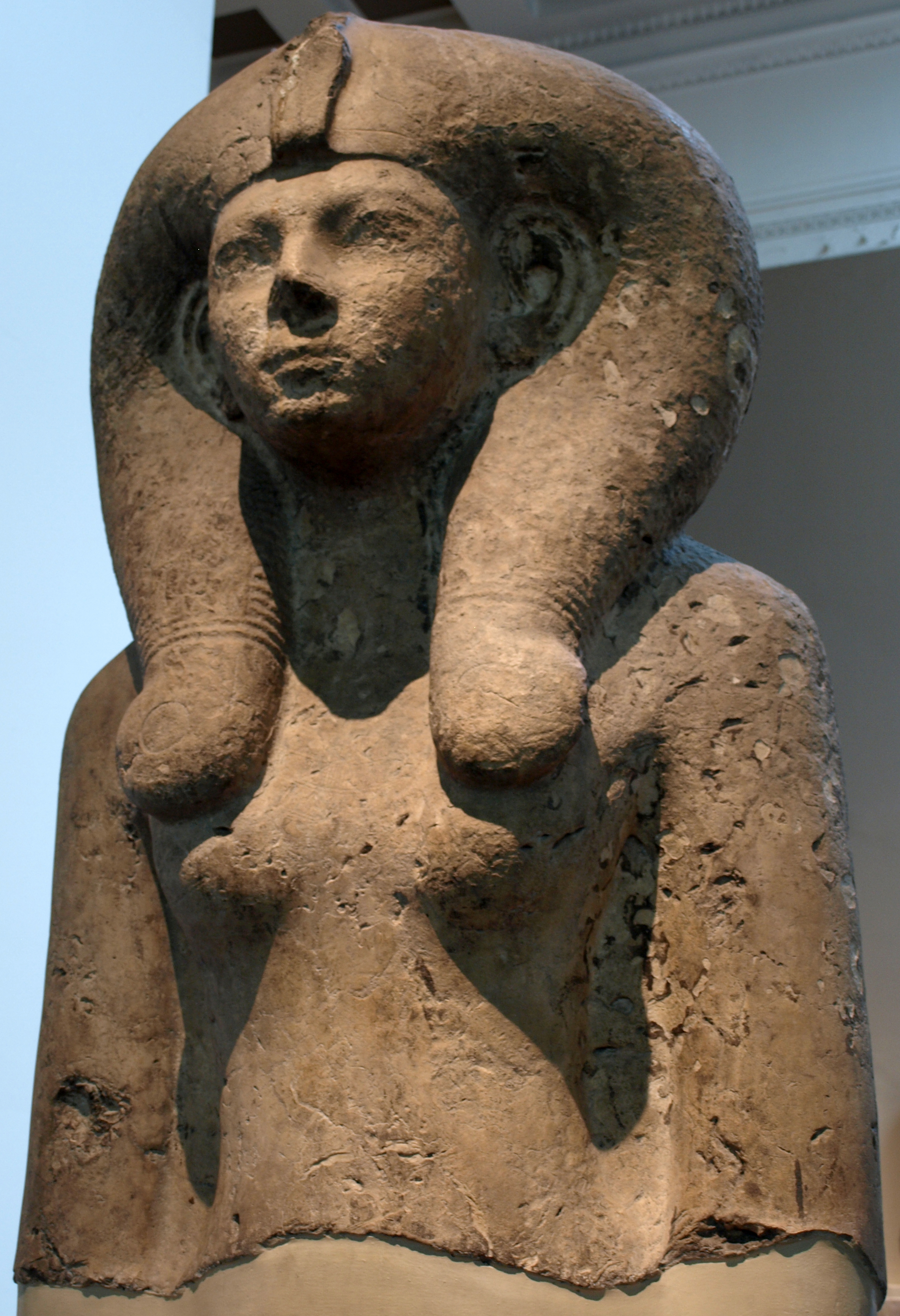 Fragmentary colossal bust of Queen Ahmes-Merytamun (Ahmose-Meritamon), wearing a Hathor-wig, 18th dynasty, circa 1550 BC, originally from Thebes. Lower half is still in place by the Eighth pylon at the temple of Karnak. EA 93.